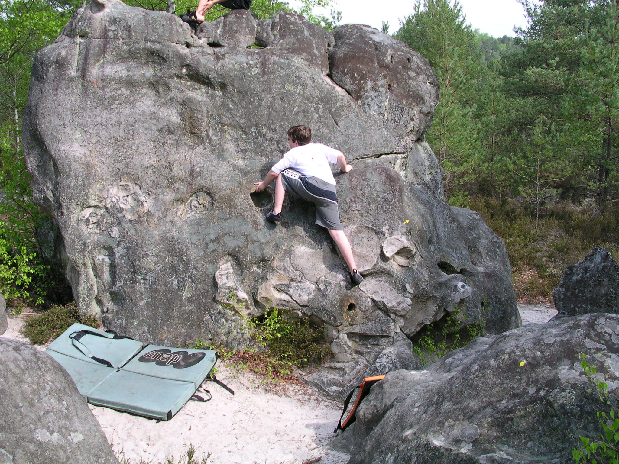 Bouldering in the 91.1 area (Noisy-sur-École, Fontainebleau forest) Auteur/Author Romary mai/May 2006